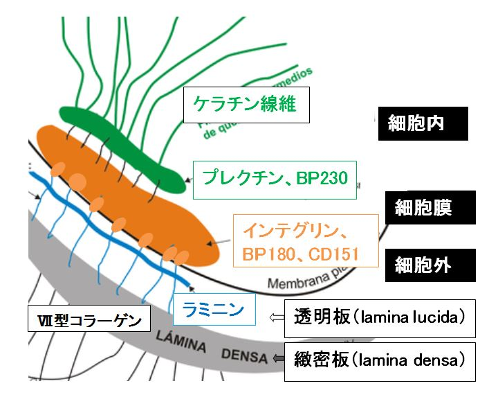 Hemidesmosome.ja1